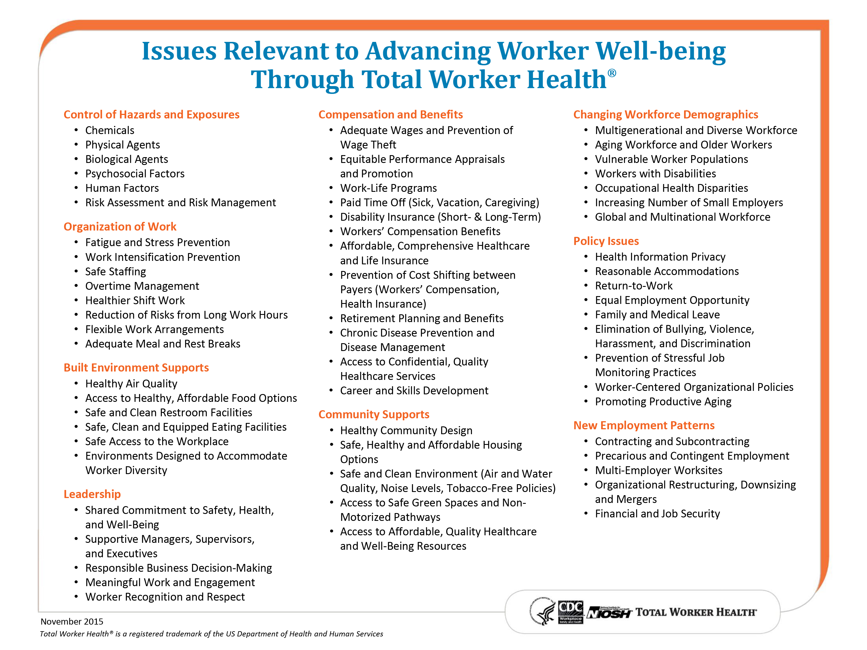 Issues Relevant to Advancing Worker Well-Being Through Total Worker Health